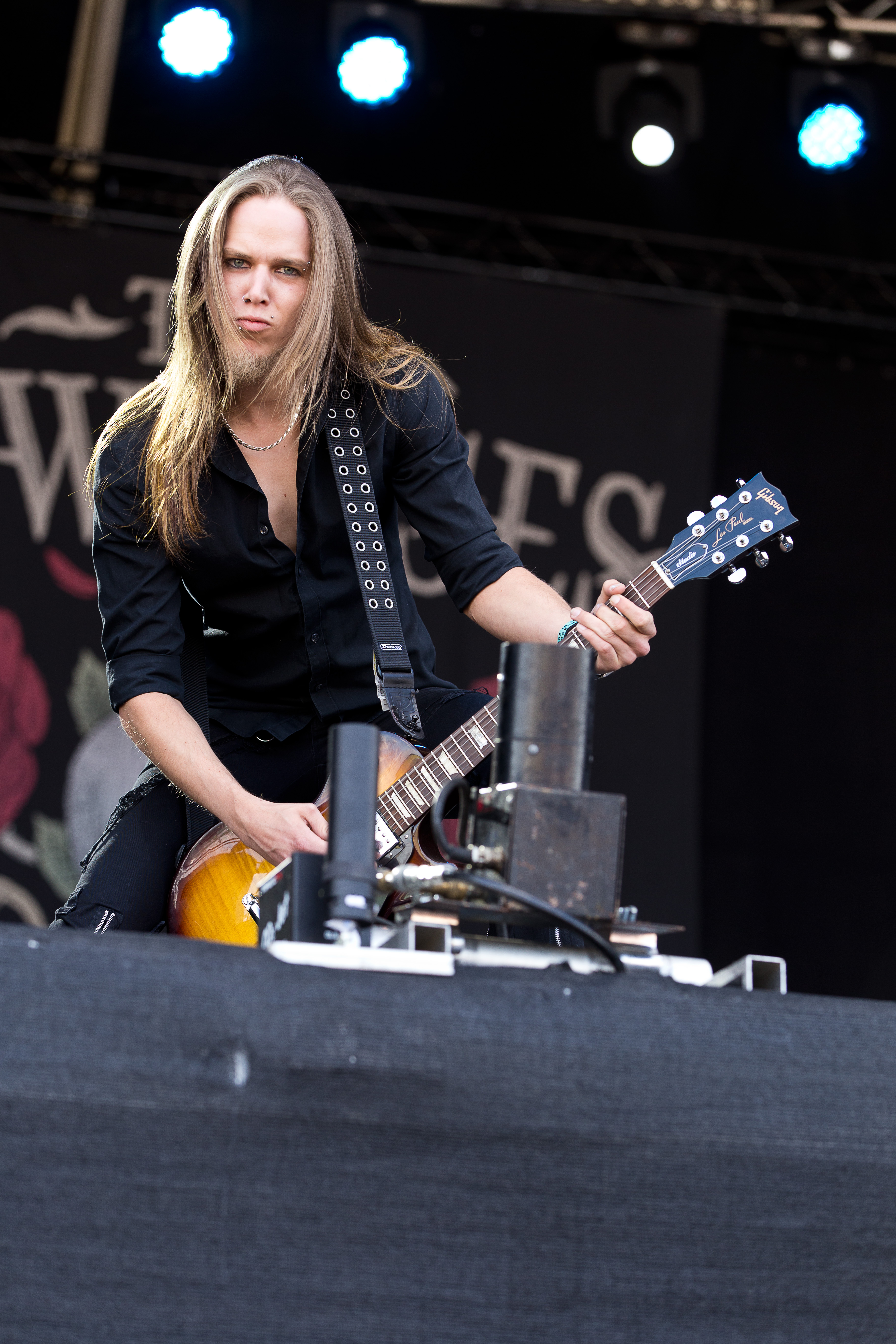 The German rock band The New Roses at the Rockharz Open Air 2016 in Ballenstedt/Germany.